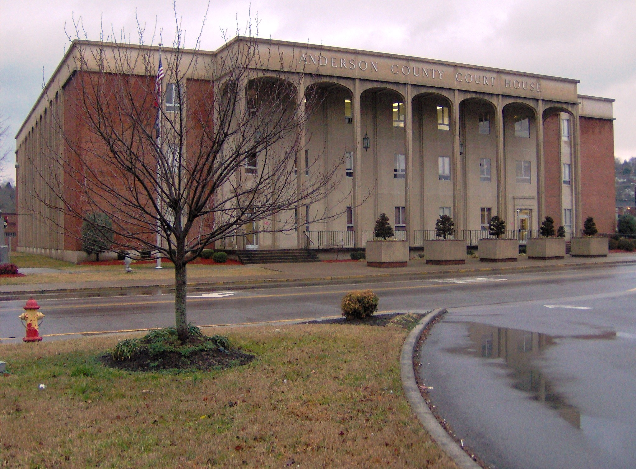 Anderson County Courthouse in Clinton, Tennessee, in the southeastern United States.